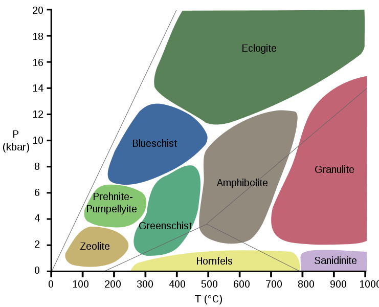 The different metamorphic facies constrained by temperature and pressure. *NOTE the pressures and temperatures correlated with the Eclogite facies